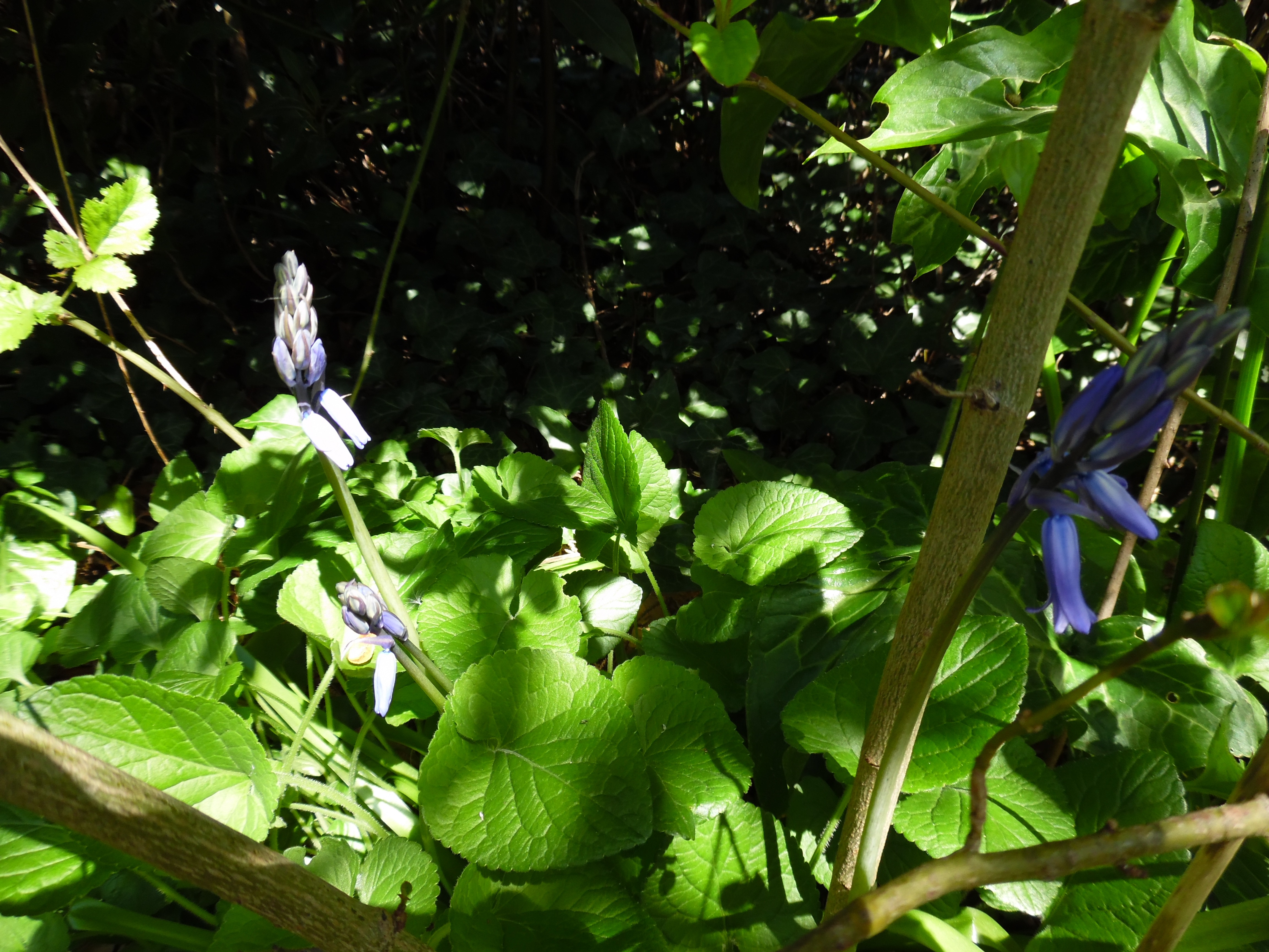 Hyacinthoides non-scripta along the Ruisseau de la Côte in the woodlands of Nontron, Dordogne, France.